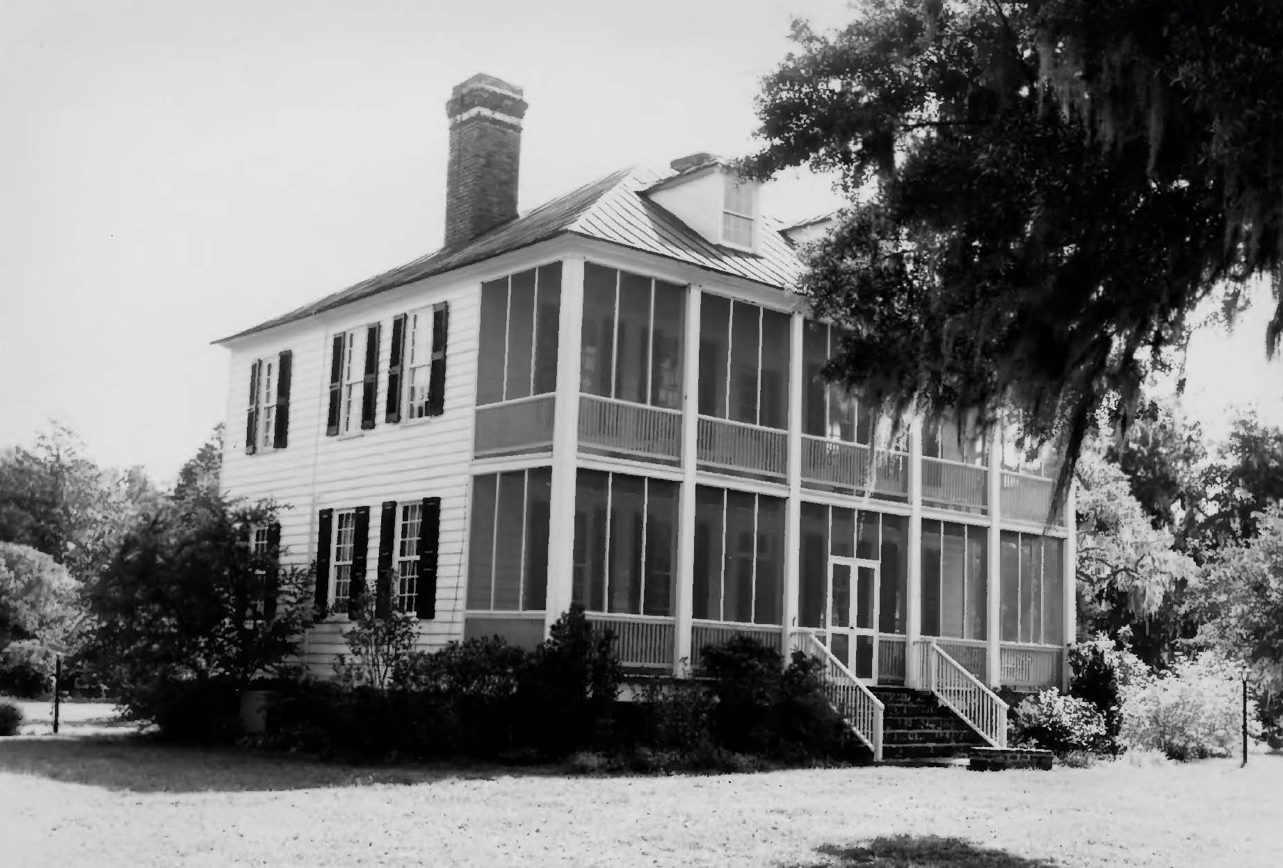 Hopsewee Plantation house (built 1735) — — on the Santee River north of Georgetown, in Georgetown County, South Carolina.